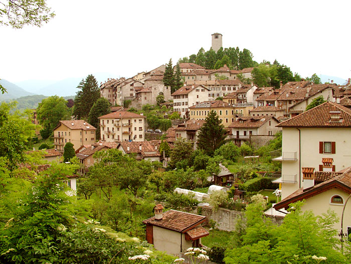 via Panoramica